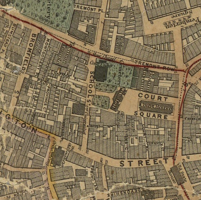 Detail of 1852 map of Boston by J. Slatter, showing Province Street and vicinity. Published by Matthew Dripps.